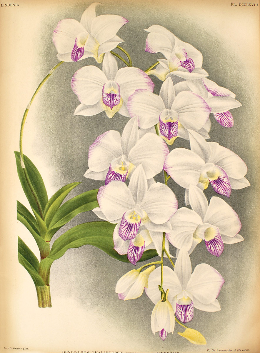 Dendrobium phalaenopsis (Dendrobium bigibbum)